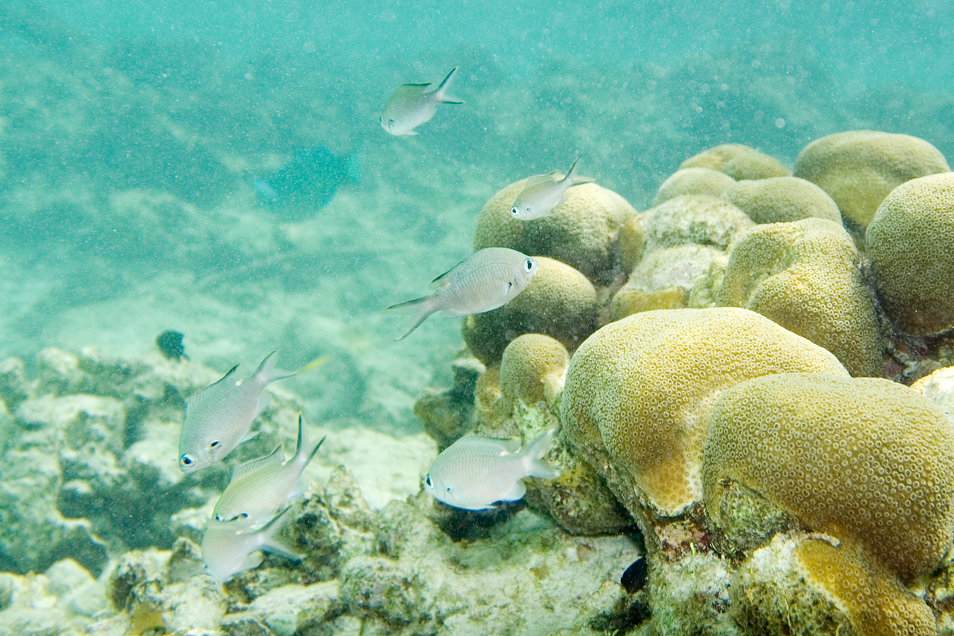 brown chromis Chromis multilineata